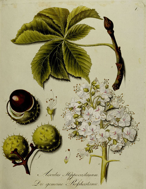 Colored engraving of Aesculus hippocastanum from "Abbildung Der Hundert Deutschen Wilden Holz-Arten Nach Dem Numern-Verzeichnis Im Forst-Handbuch von F. A. L. Burgsdorf." Stuttgart 1790-1795